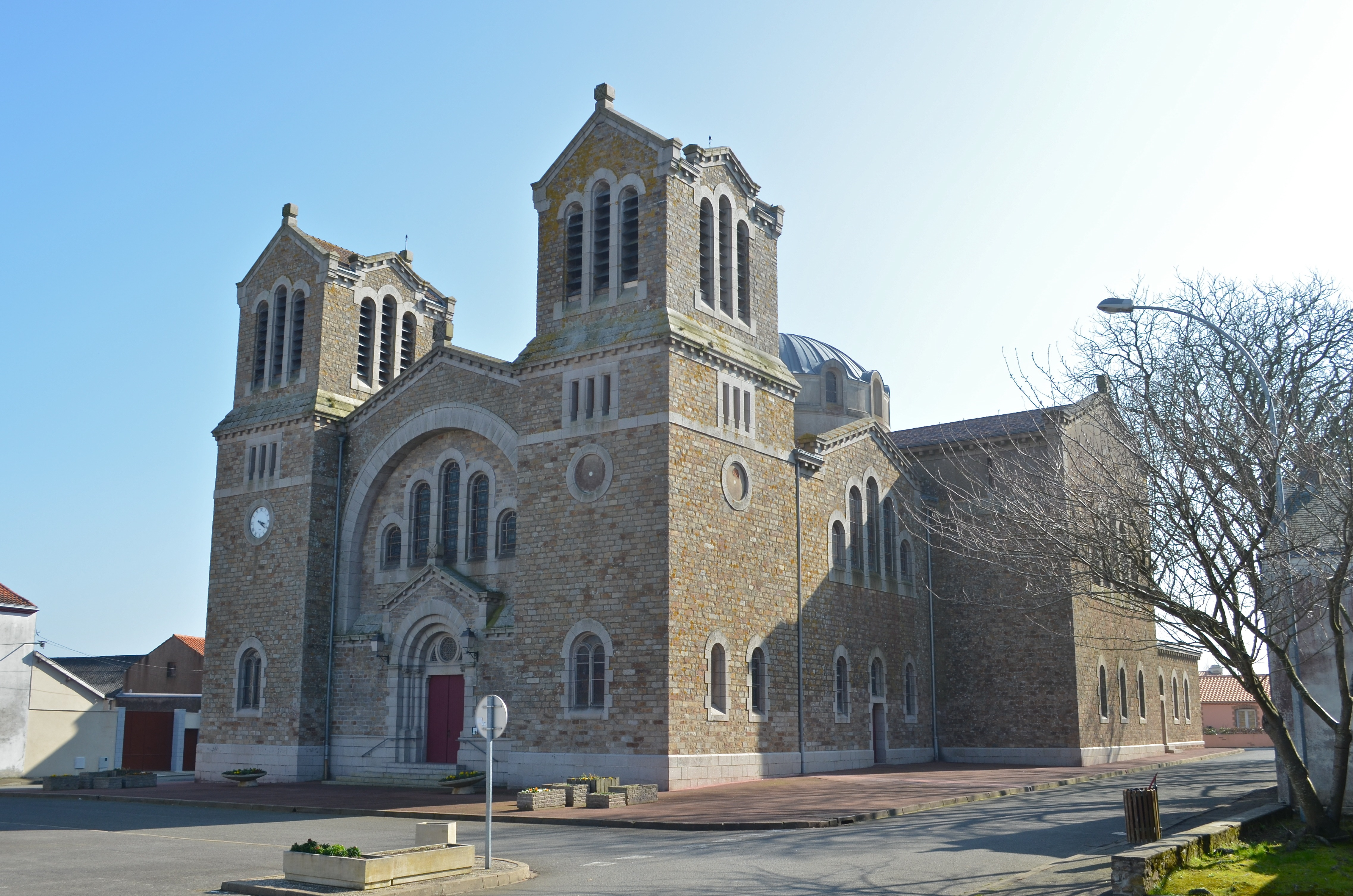 Saint-Louis church in Paimbœuf - Loire-Atlantique, France